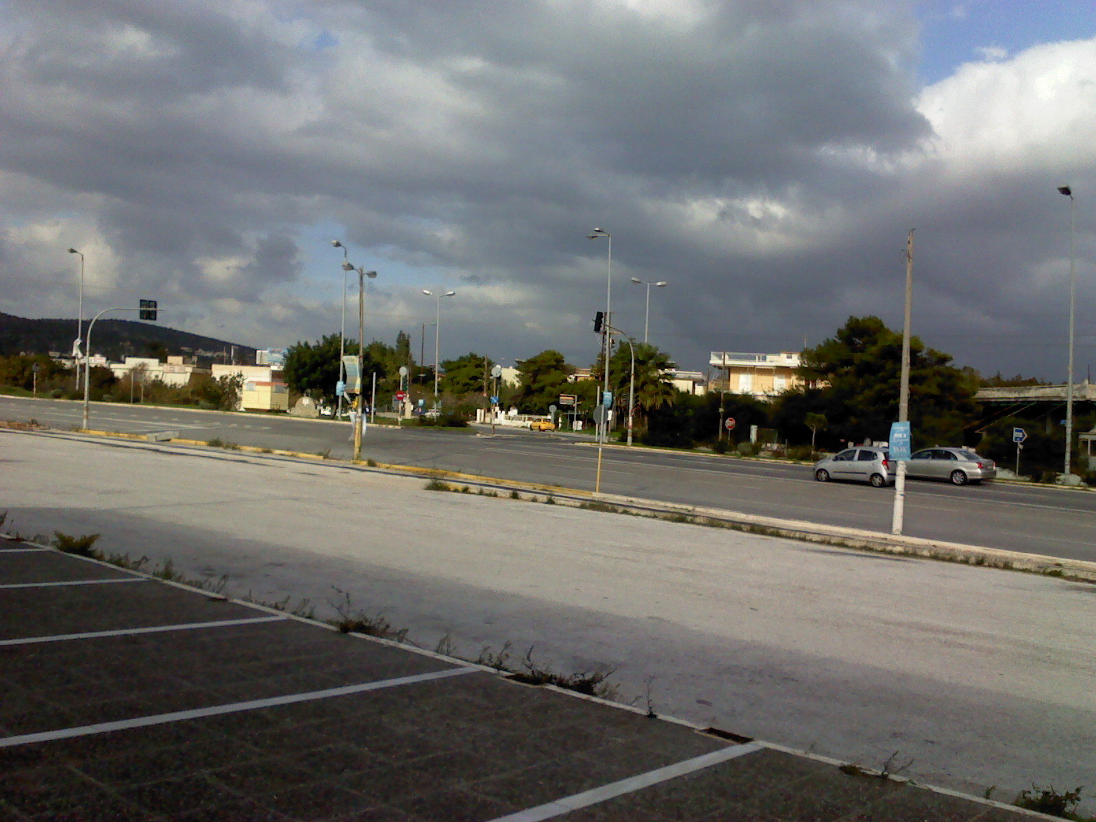 Crossroad Agia Marina